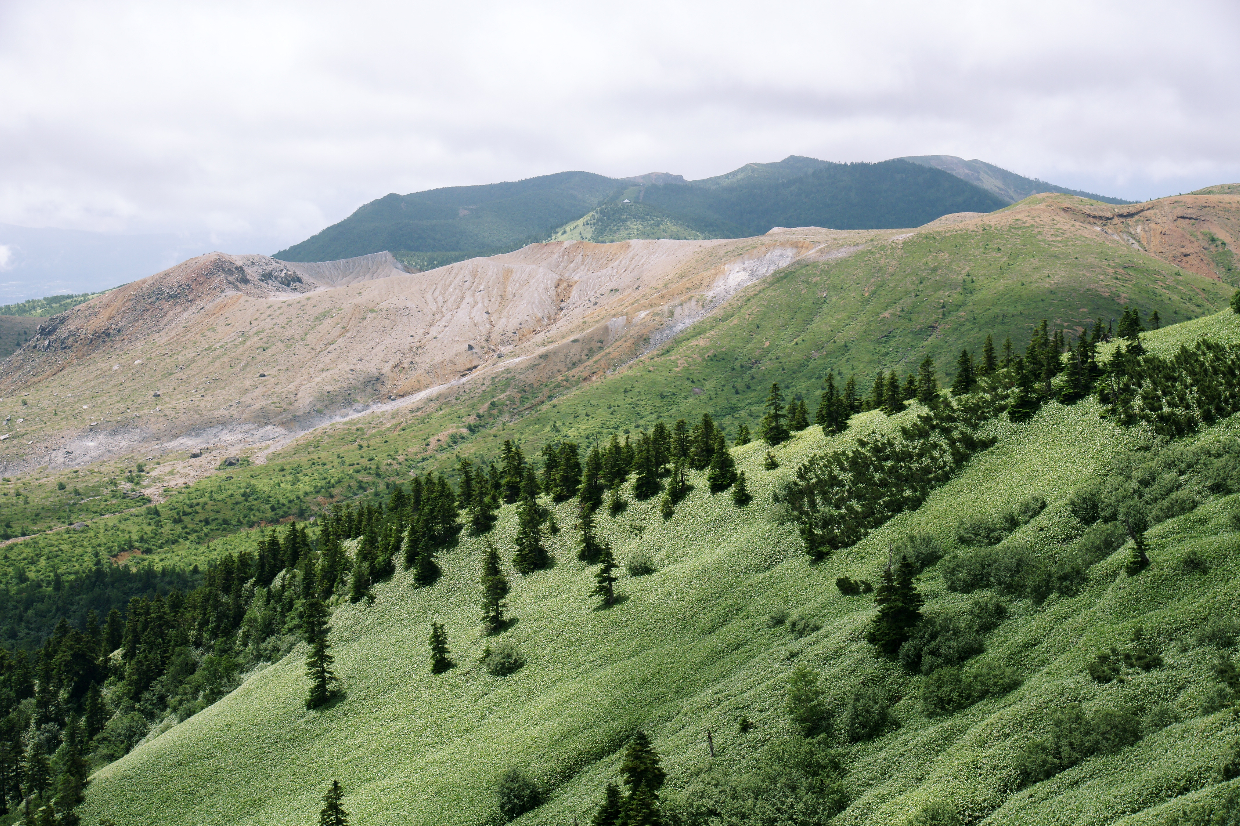 Mount Kusatsu-Shirane, view from Shibu-toge, Kuni, Gunma prefecture, Japan